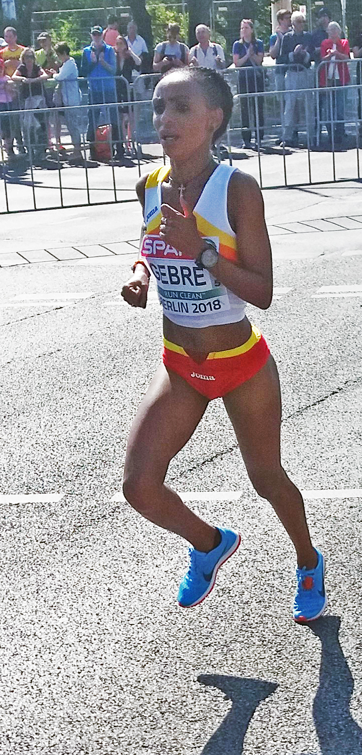 Marathon at the 2018 European Athletics Championships – Trihas Gebre